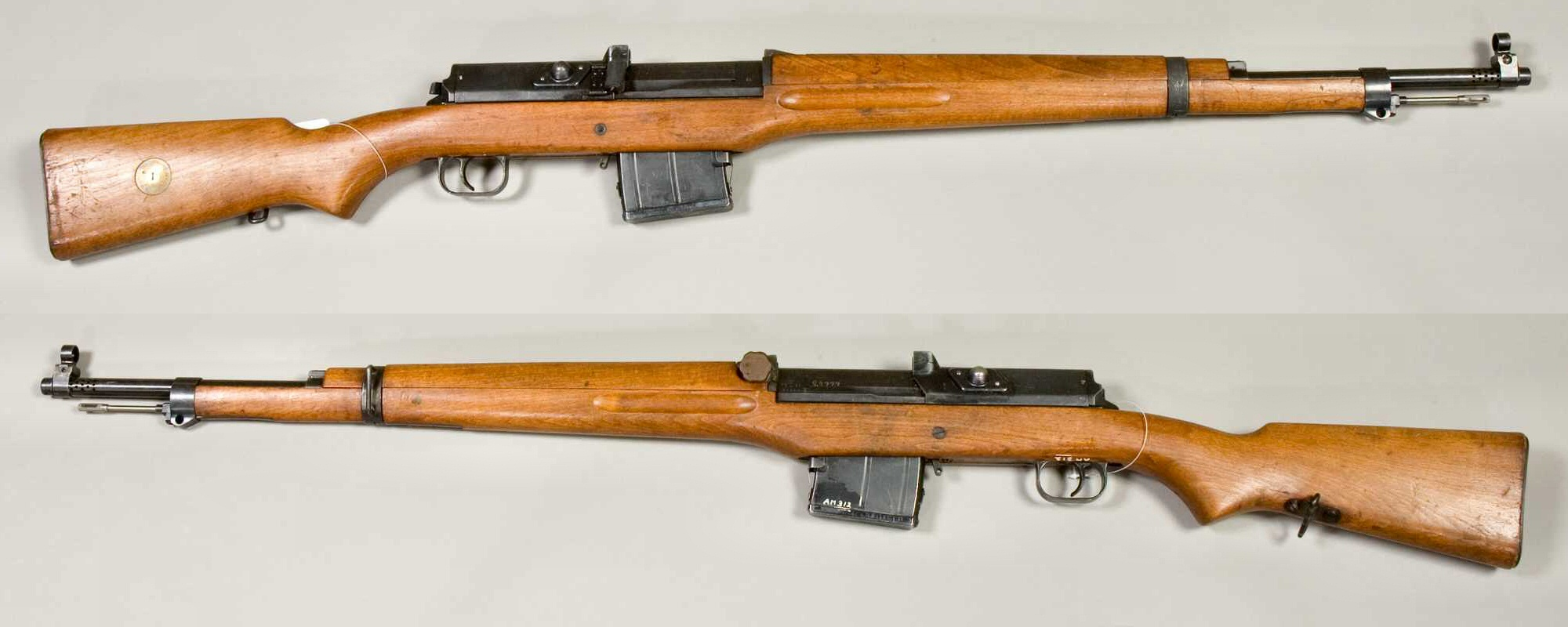 Automatgevär m/1942B (Ljungman self loading rifle). Caliber 6.5x55mm. From the collections of Armémuseum (Swedish Army Museum), Stockholm.